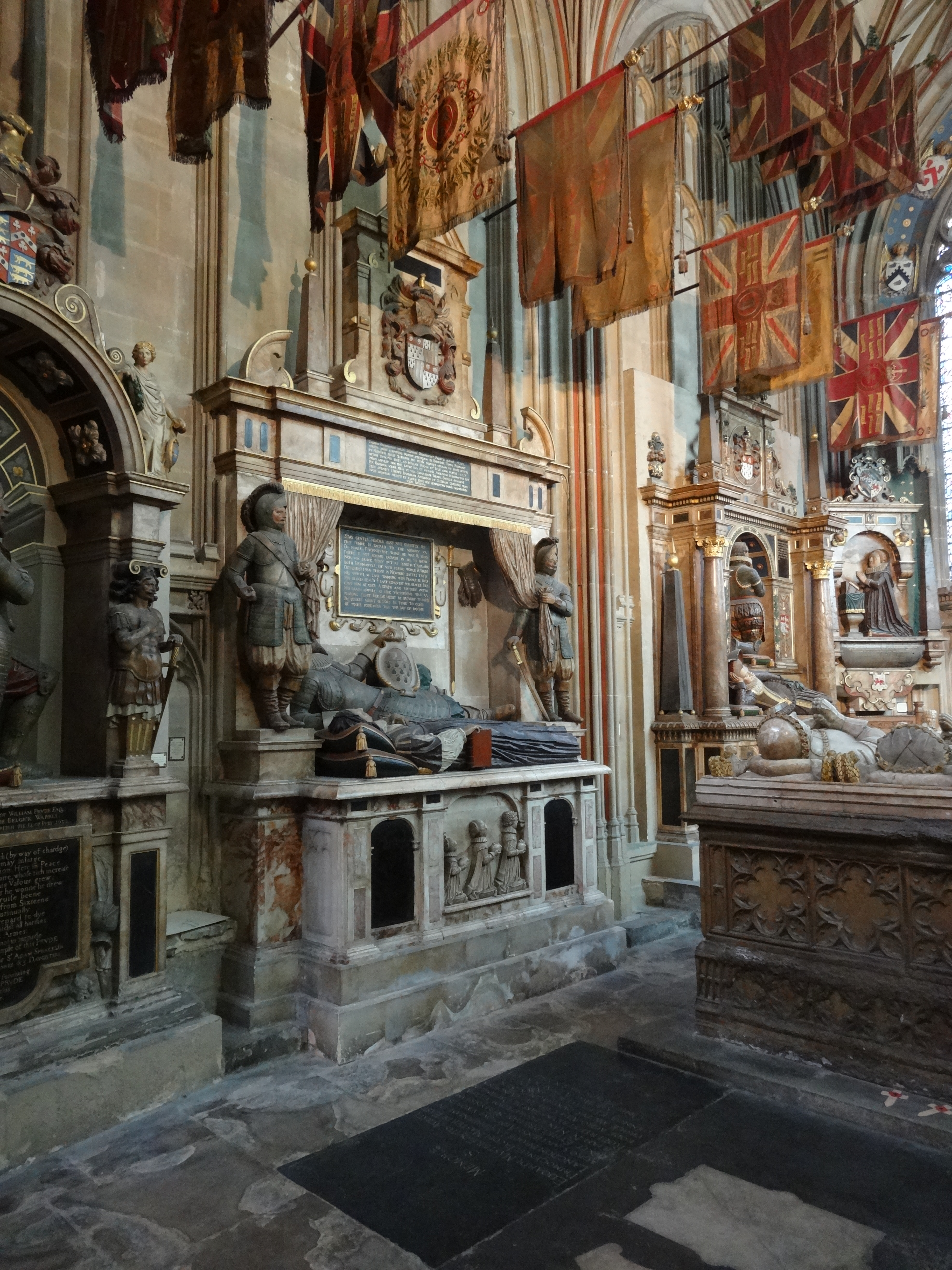 Warriors' Chapel, Canterbury Cathedral